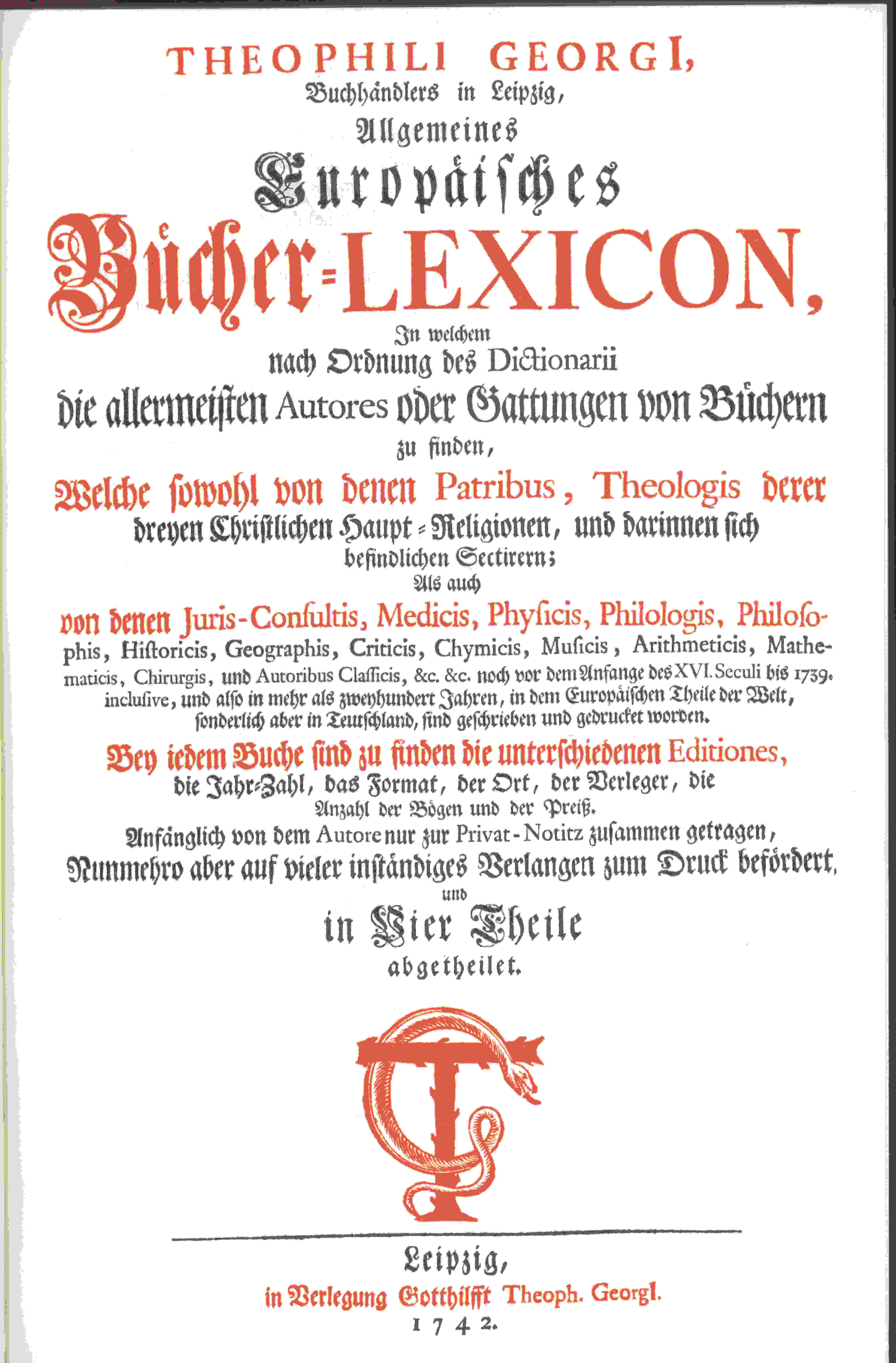 Theophil Georgi: Allgemeines Europäisches Bücher-Lexicon, 1742, title page